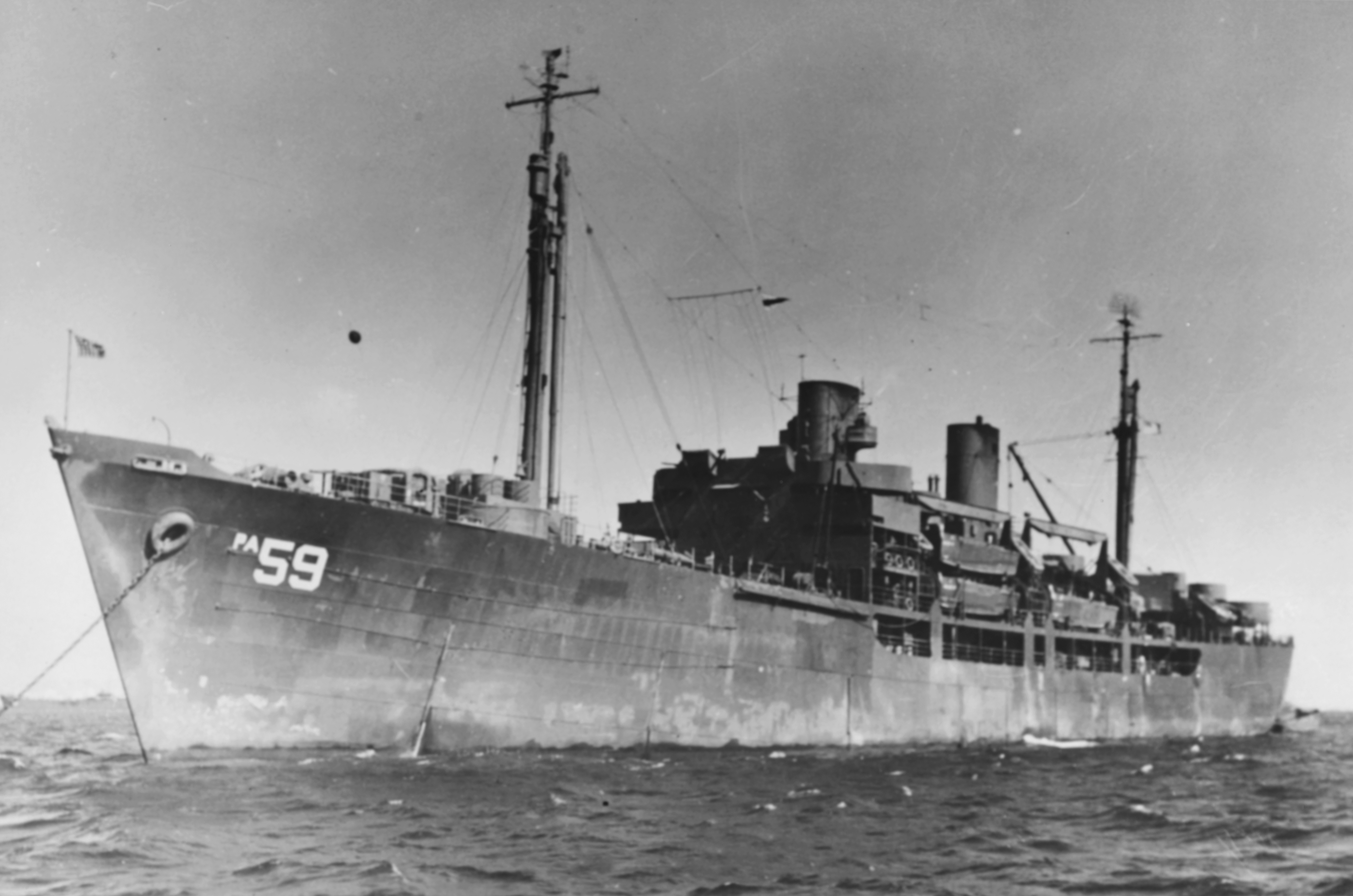 The U.S. Navy attack transport USS Audrain (APA-59) at anchor, circa in 1945.